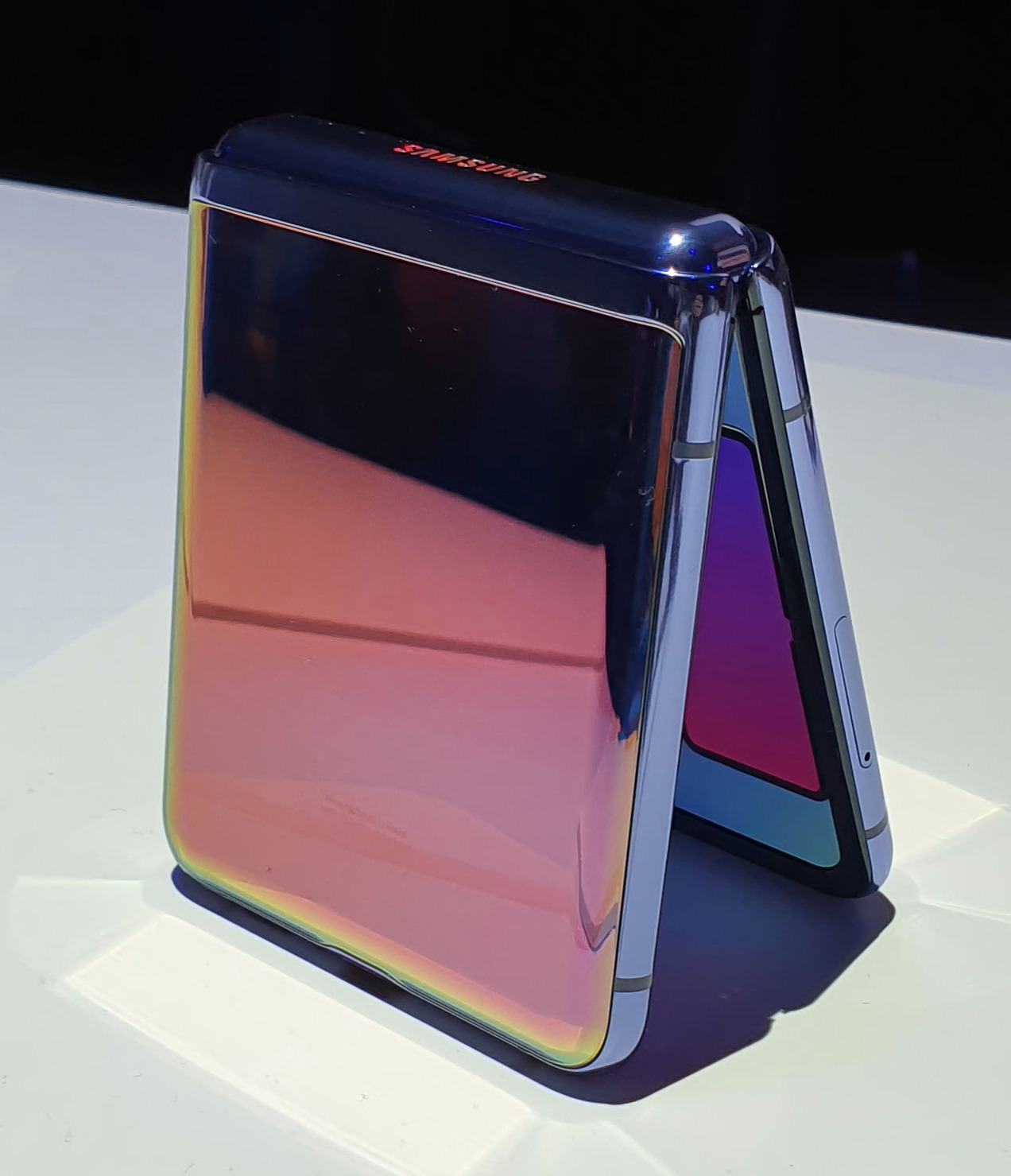 Samsung Galaxy Z Flip side view